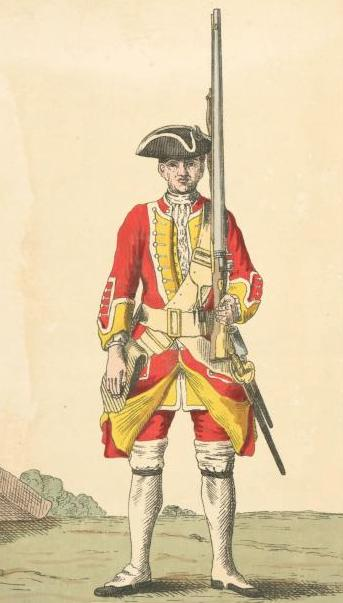 Soldier of the 35th regiment (1742)